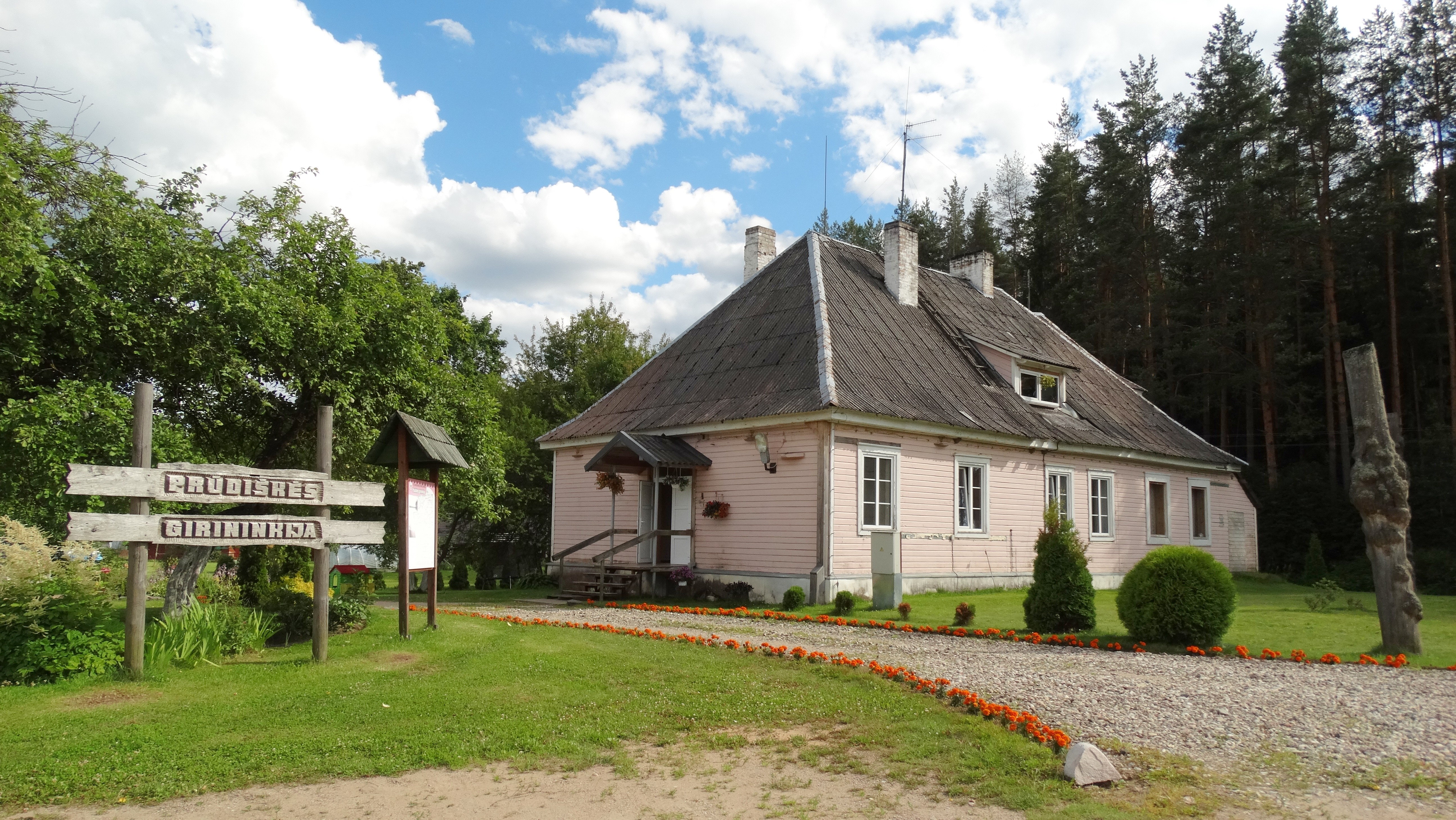 Januliškis, Švenčionys District, Lithuania